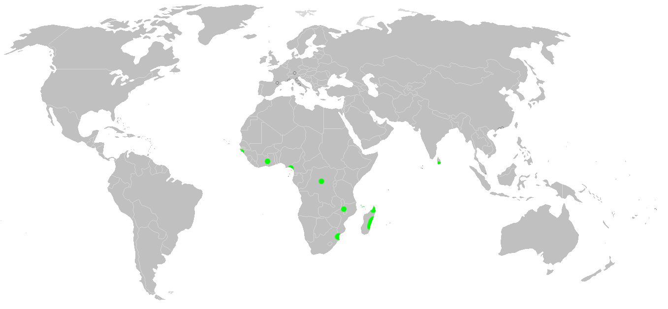 Known world distribution of Clitaetra species (Nephilidae), after Kuntner, 2006, p33 PDF